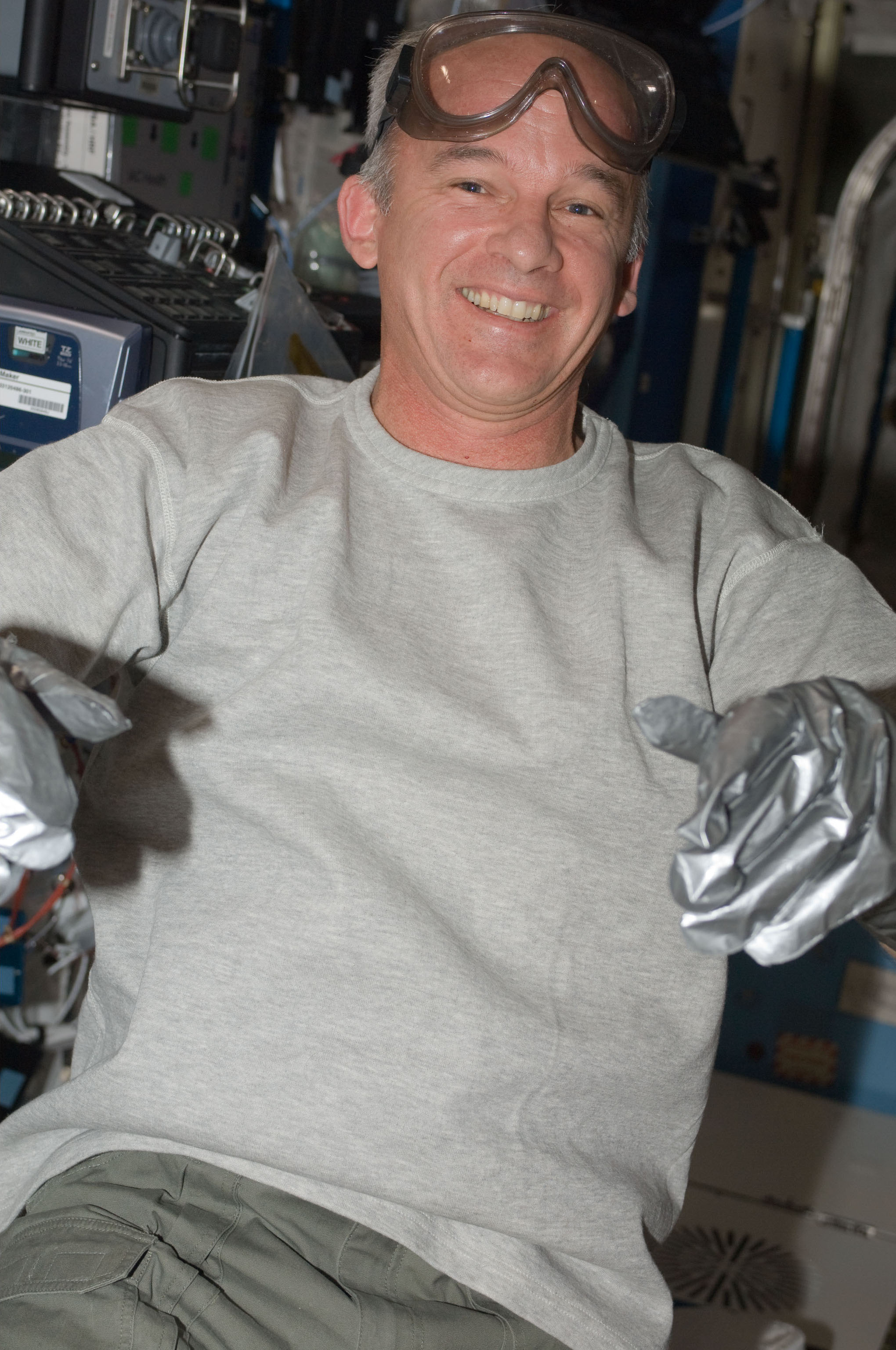 NASA astronaut Jeffrey Williams, Expedition 21 flight engineer, is pictured while working in the Destiny laboratory of the International Space Station.